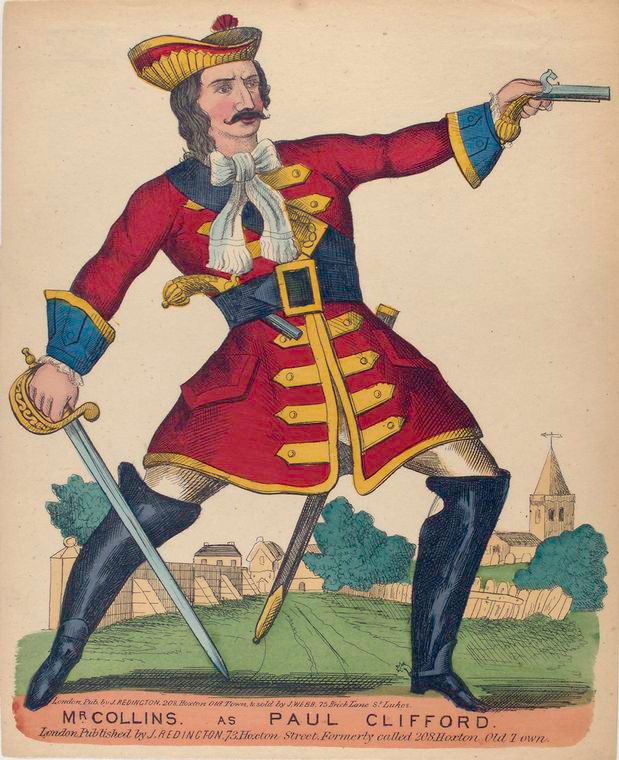 Mr. Collins as Paul Clifford Pictured is actor John Collins (1811–1874) From the William Worthen Appleton Collection of theatrical correspondence and ephemera, 1697–1930. New York Public Library. The novel Paul Clifford was adapted for the stage by Edward Fitzball, and presented in the US in 1835. More information Paul Clifford, starring John Collins, was performed on Broadway in 1852 and 1871. More information